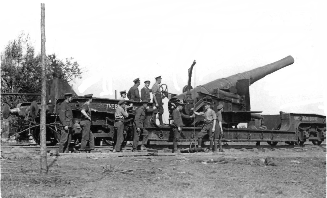 Photograph of British BL 9.2 inch gun, Mk III* or Mk VI HMS Iron Duke, mounted on Mk I railway truck, in action at Maricourt, France, during the Battle of the Somme.